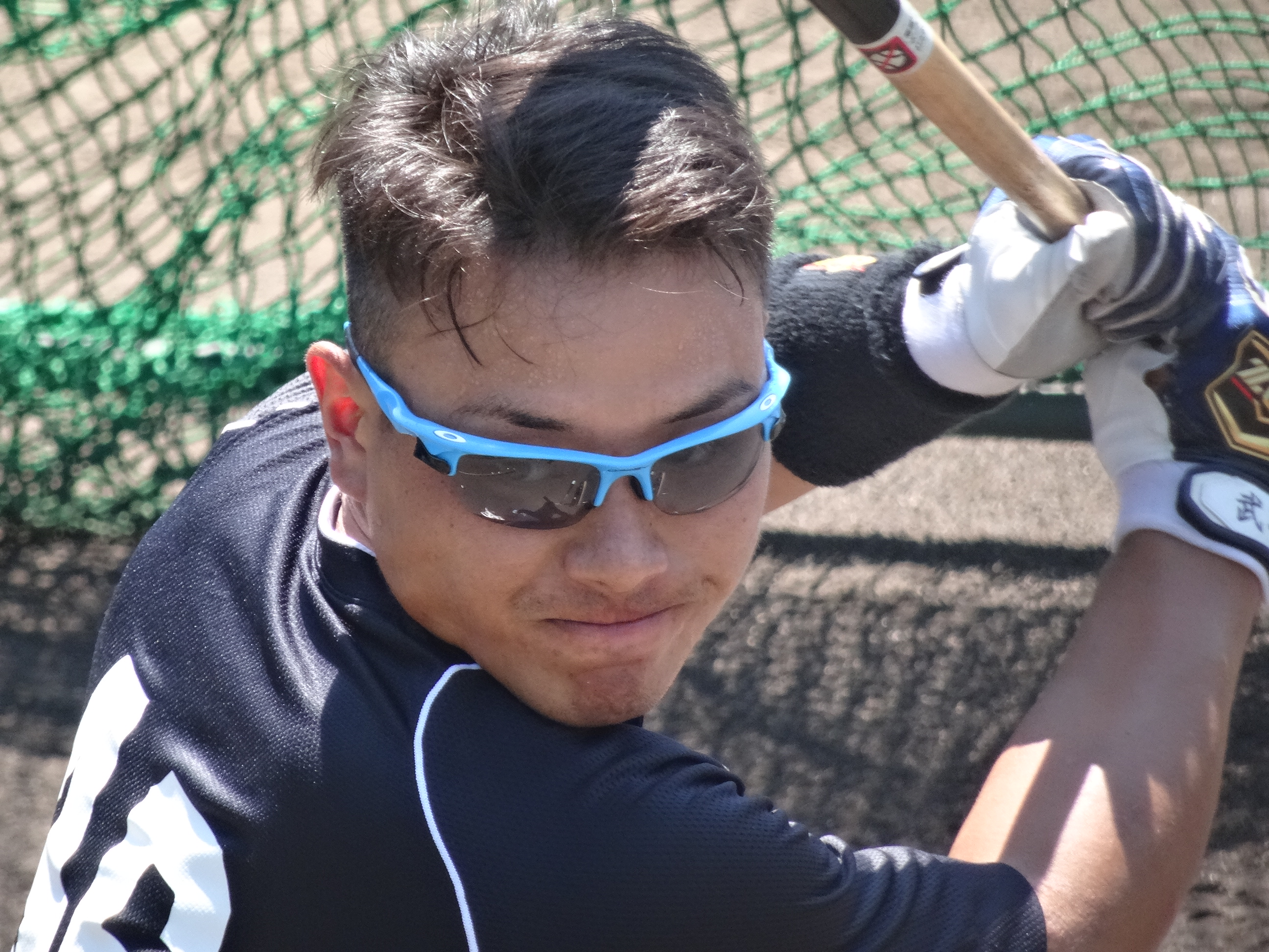 Takeru Furumoto, outfielder of the Chunichi Dragons, at Hanshin Naruohama Baseball Ground